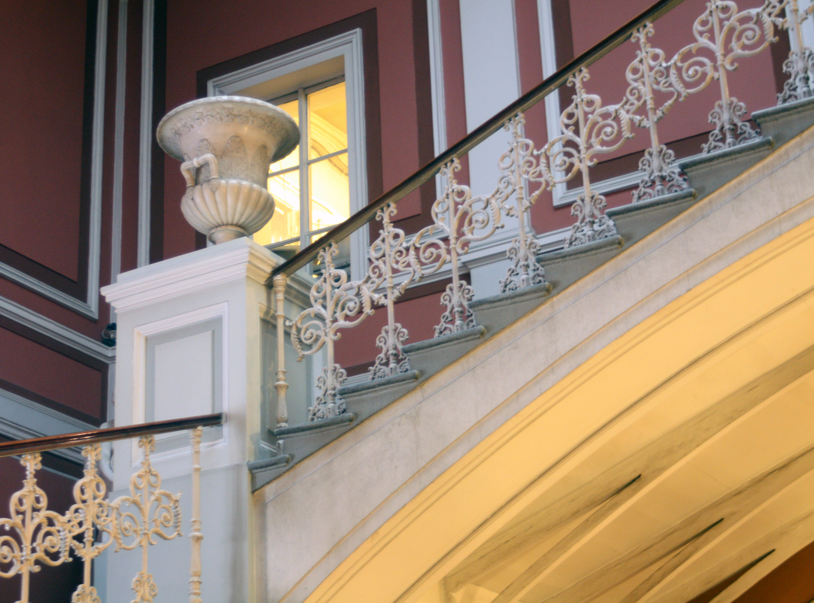 Hermitage Theatre Stairs